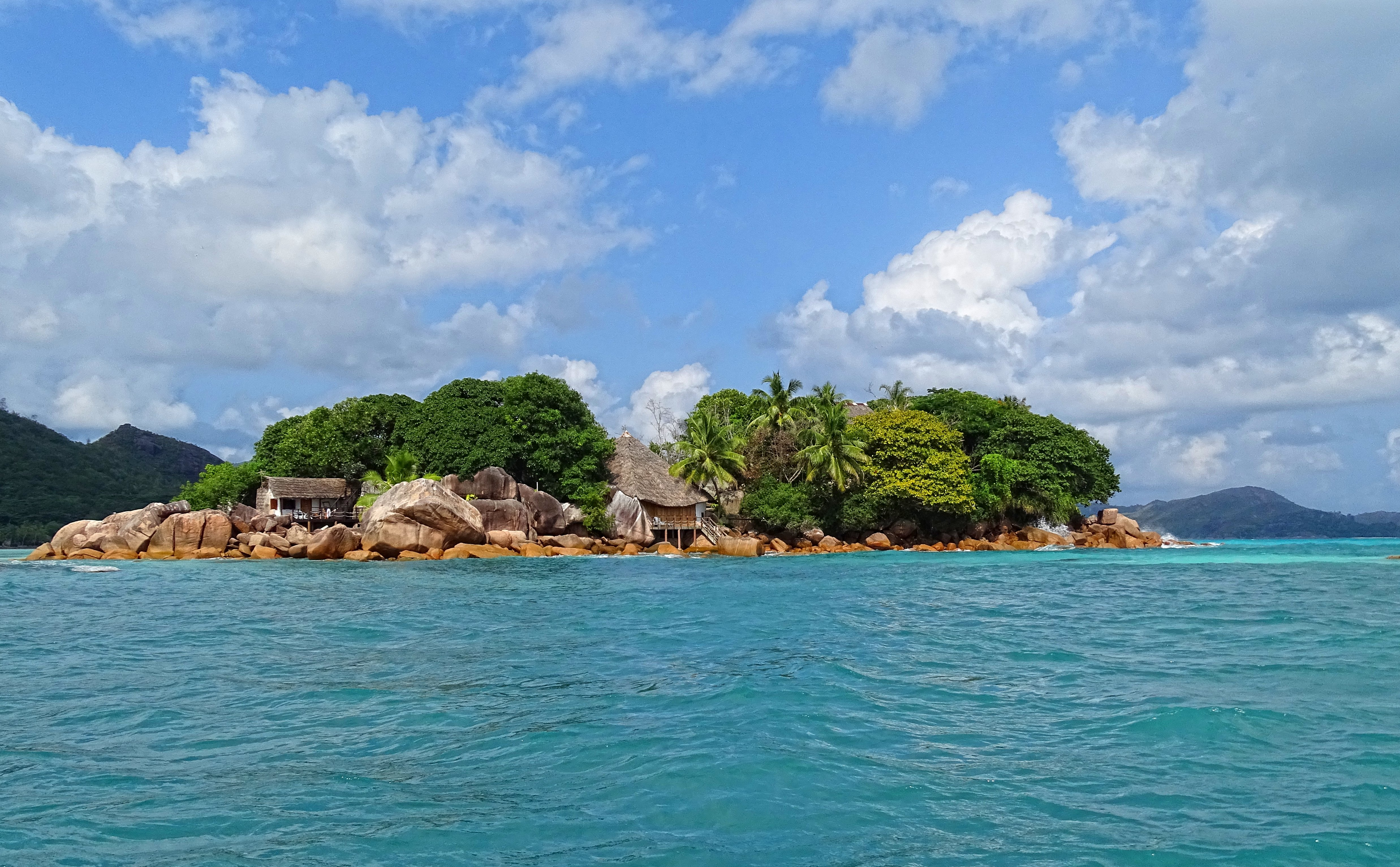 The small granitic island of Chauve Souris, just off the larger island Praslin.